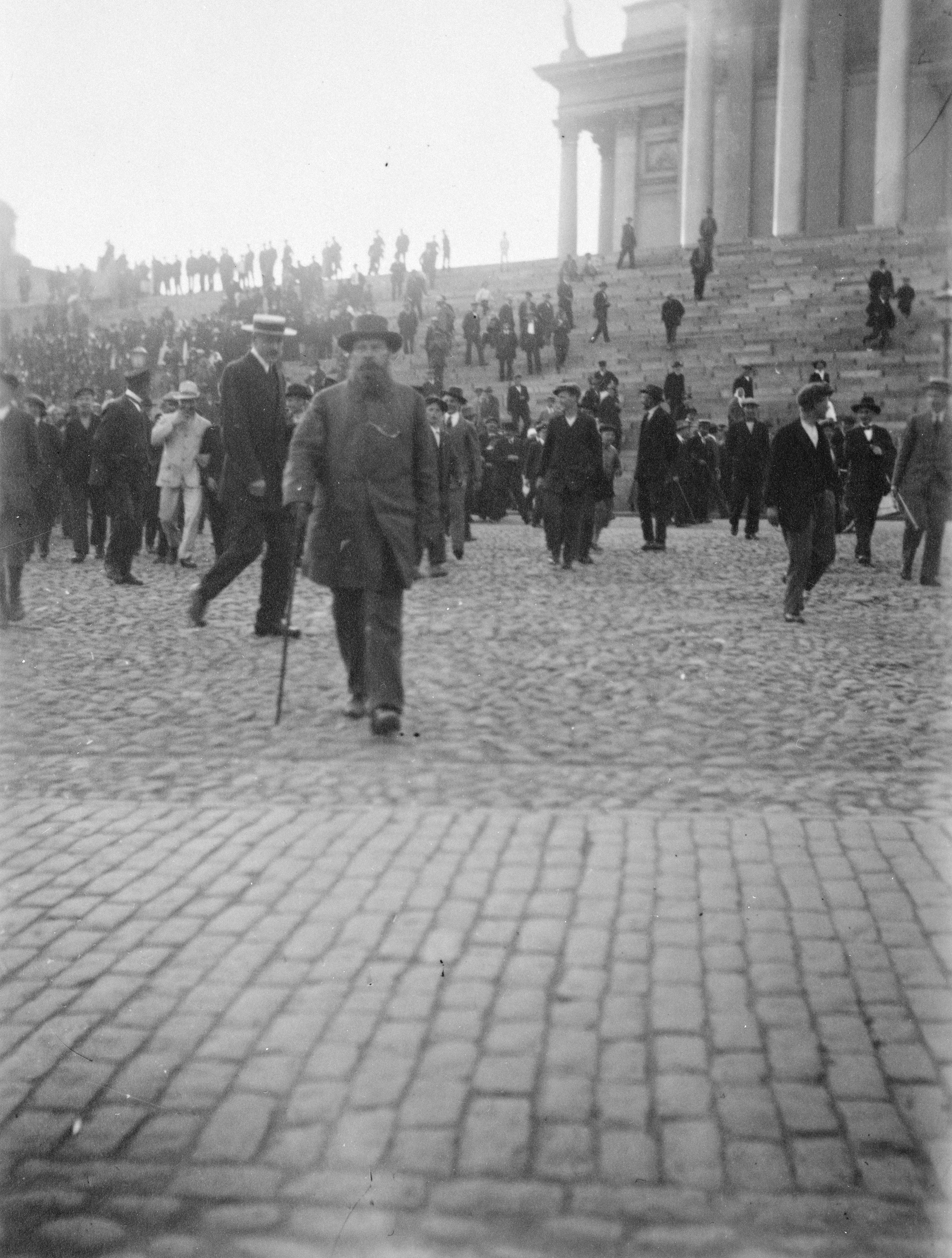 Anarchist and former priest Juho Uoti at the Senaatintori square in Helsinki, Finland 1917.